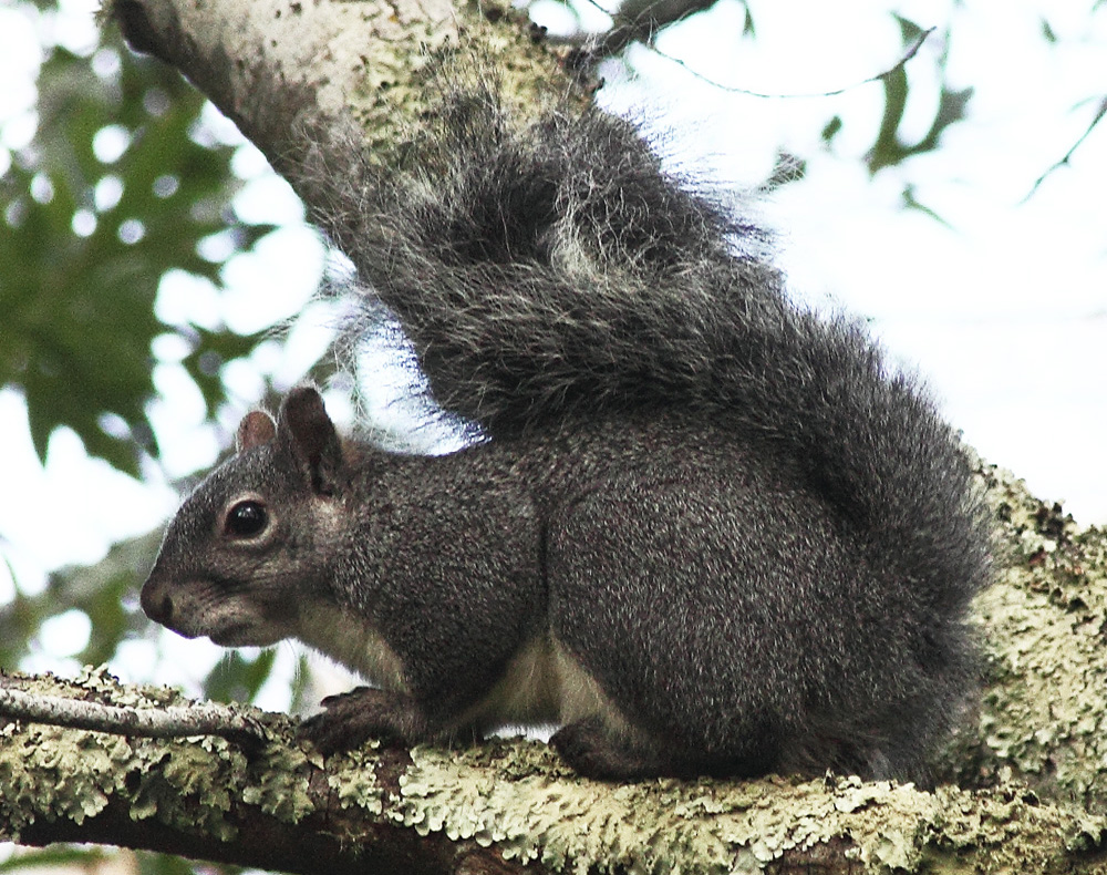 Western Gray Squirrel, photo taken by me.